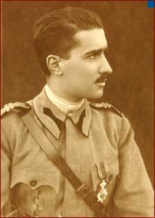 Prince Barbu Știrbei (1872 - 1946), Romanian politician, official photograph from the 1920s.